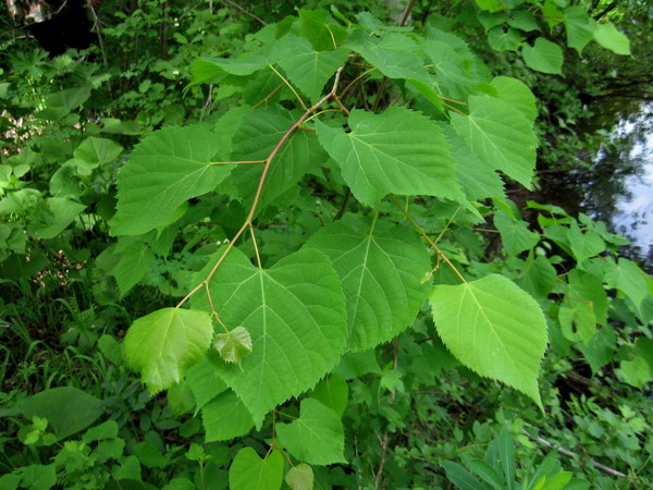 Branch of Amur Lime (Tilia amurensis), West Sayan Mountains, Russia